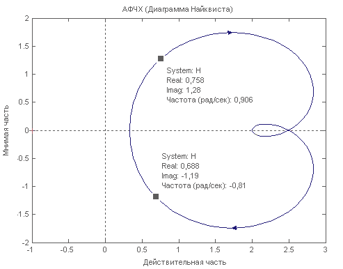 Nyquist diagram with Russian labels Description: Author: Panther Created: 20 June 2006 Source: From fr: image by Benjamin bradu